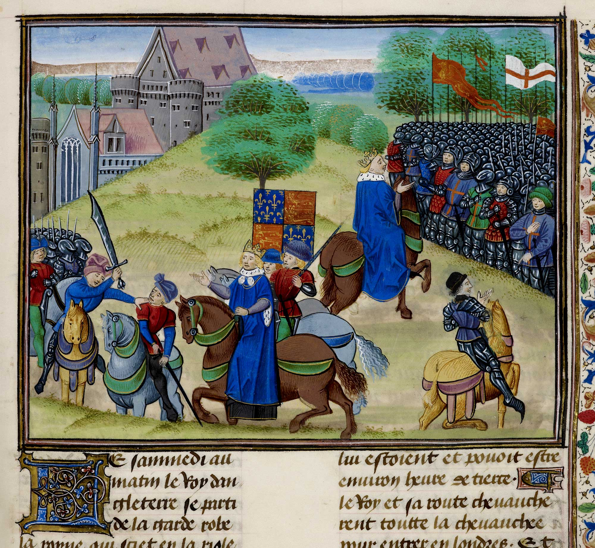 From the 1340s onwards, the catastrophic plague, known as the Black Death, had swept through England, killing between a third and half of the population. These huge death tolls led to a shortage of labour, and then to major changes in the social structure as agricultural workers were able to demand better treatment and higher wages from their landlords. Resentment among these workers was simmering when, between 1377 and 1381, a number of taxes were levied to finance government spending. This prompted a violent rebellion in June 1381, known as the Peasants' Revolt. A large group of commoners rode on London, storming the Tower of London and demanding reforms from the young King Richard II. The rebellion would end in failure. A number of important rebels were killed, including their leader Wat Tyler, pictured here. Richard quelled the rebellion by promising reforms but failed to keep his word. Instead, punishments were harsh. Despite its failure, the incident is seen as a defining moment in the history of popular rebellion. This image is from a manuscript copy of the Chronicles of Jean Froissart (the chronicles cover the years 1322 until 1400; this version was created c.1483). Froissart described the Peasants' Revolt in detail. Here he explains the roots of the rebels' resentment: 'Never was any land or realm in such great danger as England at that time. It was because of the abundance and prosperity in which the common people then lived that this rebellion broke out... The evil-disposed in these districts began to rise, saying, they were too severely oppressed;... [that their lords] treated them as beasts. This they would not longer bear, but had determined to be free, and if they laboured or did any other works for their lords, they would be paid for it.' Shelfmark: Royal MS 18 E I f.175.